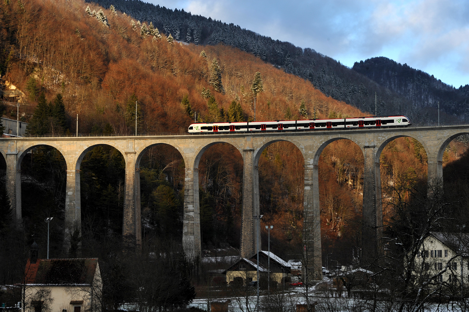 Viaduc de Saint-Ursanne; Jura, Switzerland.